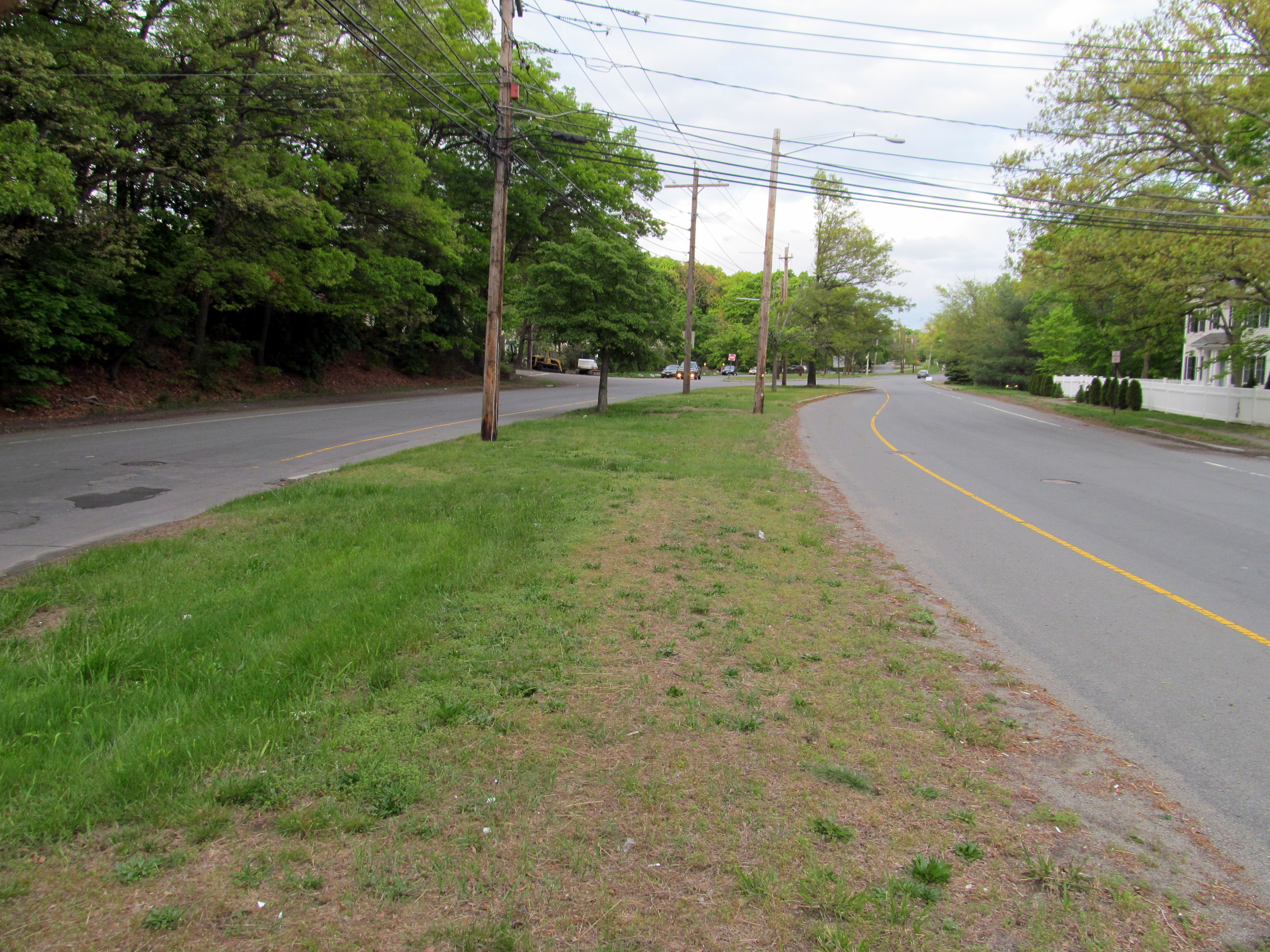 Until 1930, the Middlesex and Boston Street Railway's Auburndale-Lake Street via Commonwealth Avenue line ran from Lake Street (now Boston College station) to Norumbega Park in Auburndale on the wide median of Commonwealth Avenue. Nearly a century later, the wide median is still present here in Auburndale.